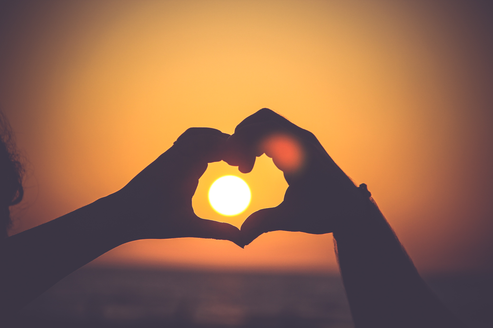 Heart hand gesture with setting sun